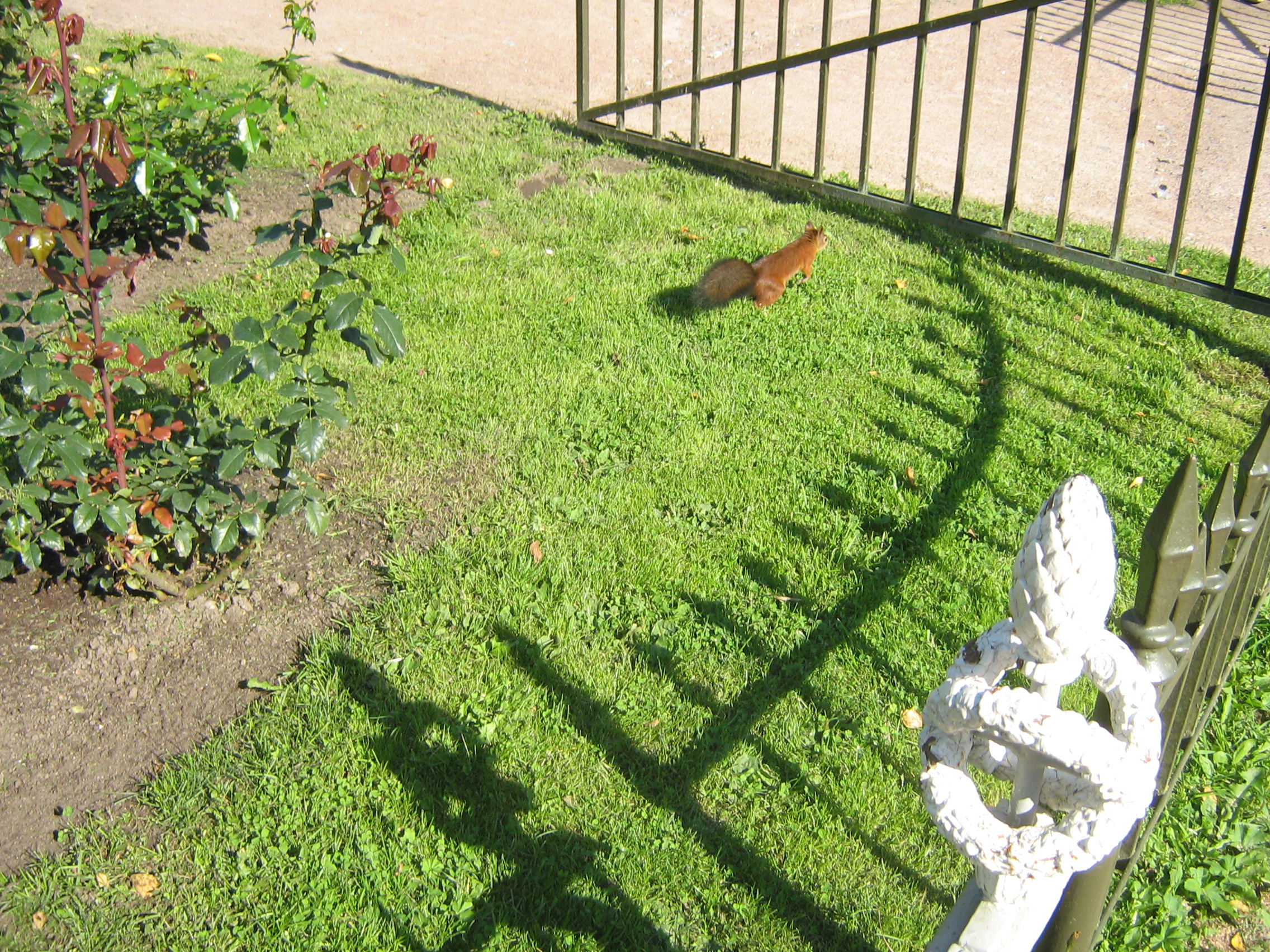 Pavlovsk (Russia)